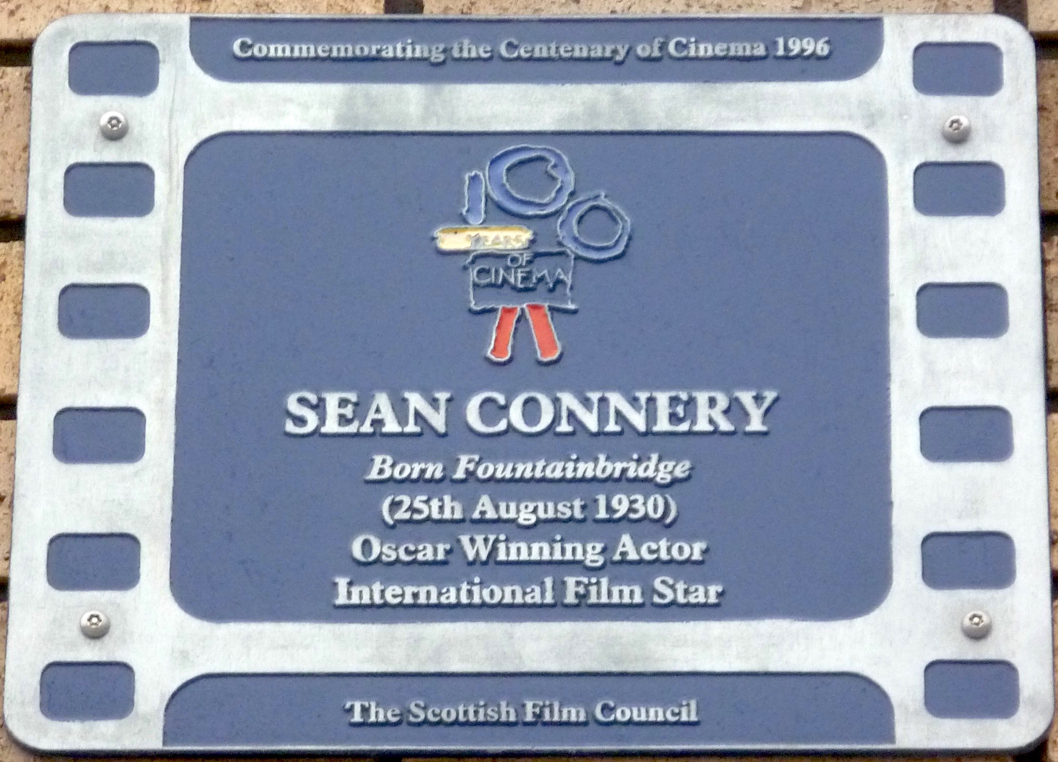 Scotland has a long tradition of 'rags to riches' stories, but few can be as extraordinary as that of the working-class milkman in post-war austerity Britain who became an accomplished actor and the world's most glamorous male filmstar in the 'Swinging Sixties'. The plaque is on a block of modern flats in Fountainbridge, close to the site of the demolished tenement where Connery grew up and where his father worked at the nearby North British Rubber Company's Castle Mill. "When I took a taxi during a recent Edinburgh Film Festival, the cabbie was amazed that I could put a name to every street we passed. "How come?" he asked. "As a boy I used to deliver milk round here," I said. "So what do you do now?" That was rather harder to answer." -- Sean Connery, Being A Scot, 2008